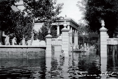 1939, before the gate of Tientsin Grammar School.